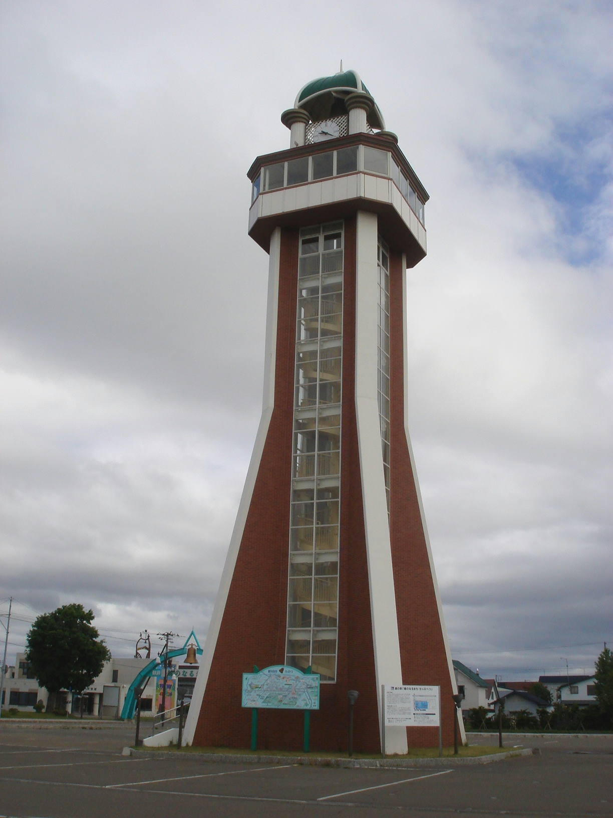 Michinoeki (Roadside Station) Kanenonarumachi Chippubetsu in Chippubetsu, Hokkaidō